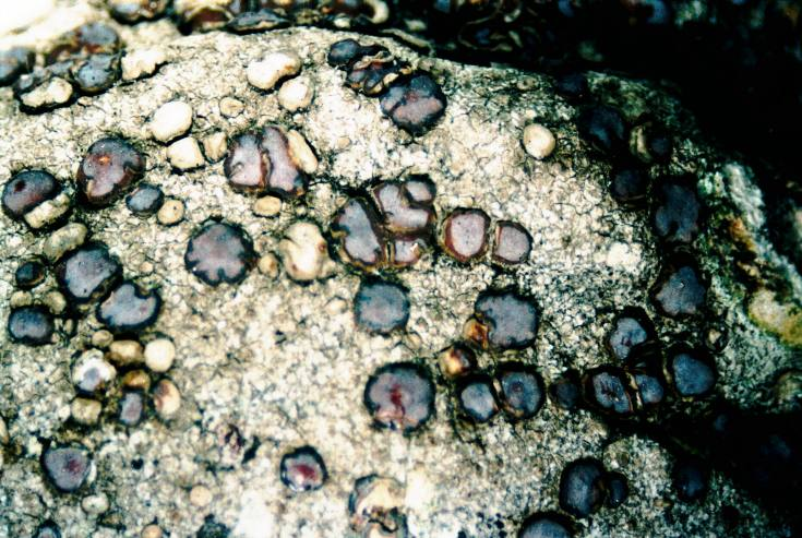 Sarcogyne regularis Körber, 1855 (photograph of a herbarium specimen taken through a dissecting microscope (x6) showing bluish gray pruinose apothecia) Growing on limestone near the water at Bush Bay picnic area, ca. 6 miles E of Cedarville on M-134, Mackinac County, Michigan, USA; collected and identified by Richard E. Riefner (No. 81-416, 7 Jul 1981); specimen is now in the Lichen Herbarium of the New York Botanical Garden.